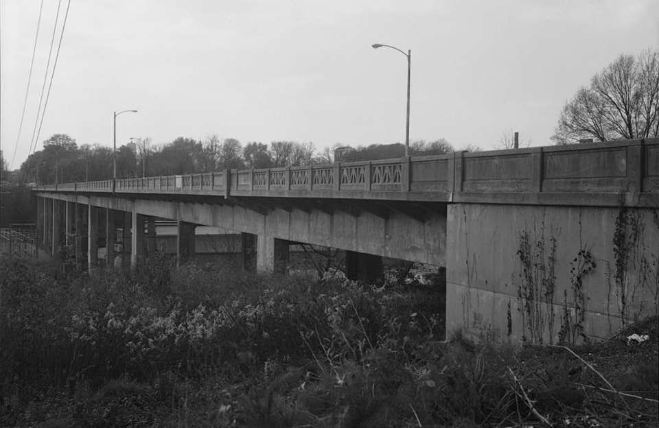 Title: 5. EAST ELEVATION, FROM NORTHEAST - Fifth Street Viaduct, Spanning Bacon's Quarter Branch Valley on Fifth Street, Richmond, VA Medium: 4 x 5 in. Reproduction Number: HAER VA,44-RICH,115--5 Rights Advisory: No known restrictions on images made by the U.S. Government; images copied from other sources may be restricted. ( Call Number: HAER VA,44-RICH,115--5 Repository: Library of Congress Prints and Photographs Division Washington, D.C. 20540 USA Place: Virginia -- Independent City -- Richmond Latitude/Longitude: 37.55361, -77.46056 Collections: Historic American Buildings Survey/Historic American Engineering Record/Historic American Landscapes Survey